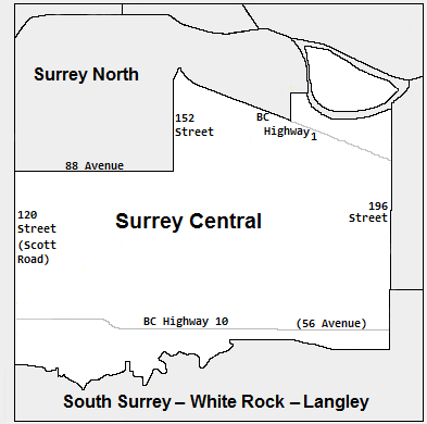 Defunct Canadian federal electoral district. Based on information from Elections Canada.